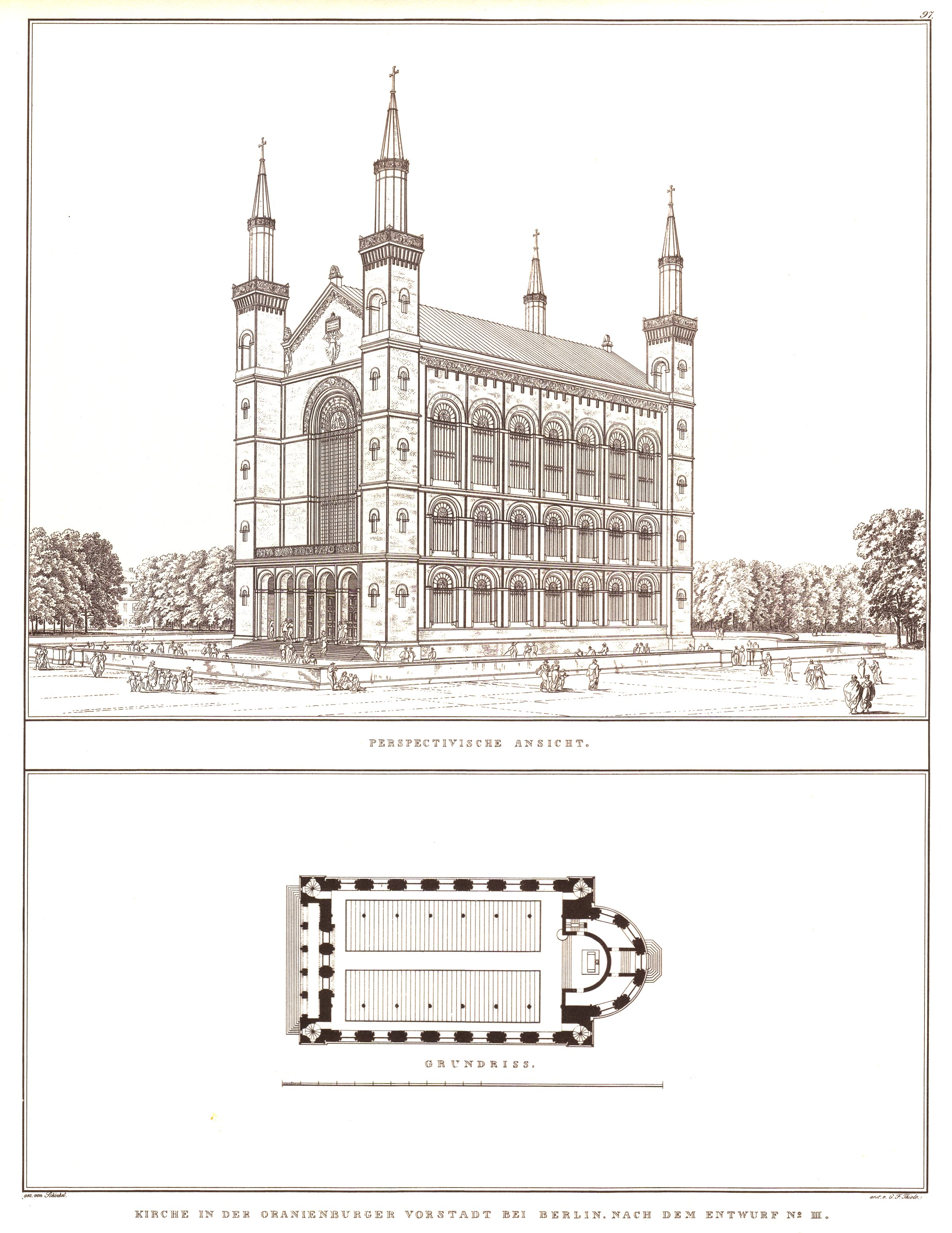 Architectural design No III for a church in the Oranienburger Vorstadt (Berlin) by Carl Friedrich Schinkel